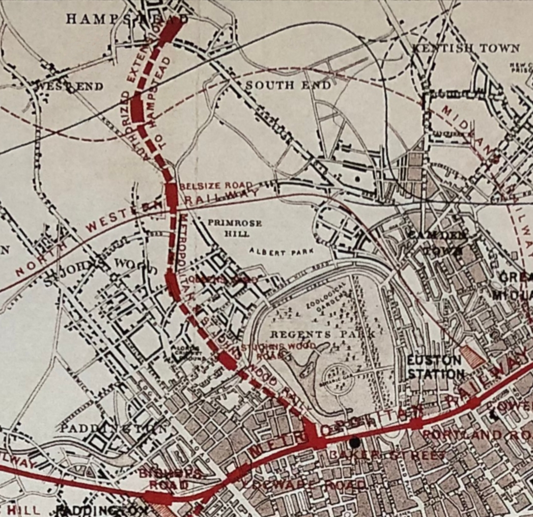 Extract from Metropolitan Railway of routes shows the Metropolitan and St John's Wood Railway then being constructed from Baker Street to Hampstead (opened from Baker Street to Swiss Cottage in 1868)